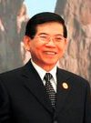 Cropped image of President Nguyen Minh Triet of Vietnam, at the National Conference Center in Hanoi prior to the start of the first retreat of the 2006 APEC Summit. White House photo by Paul Morse